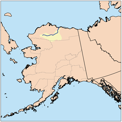 Map of the Colville River watershed — in northern Alaska.